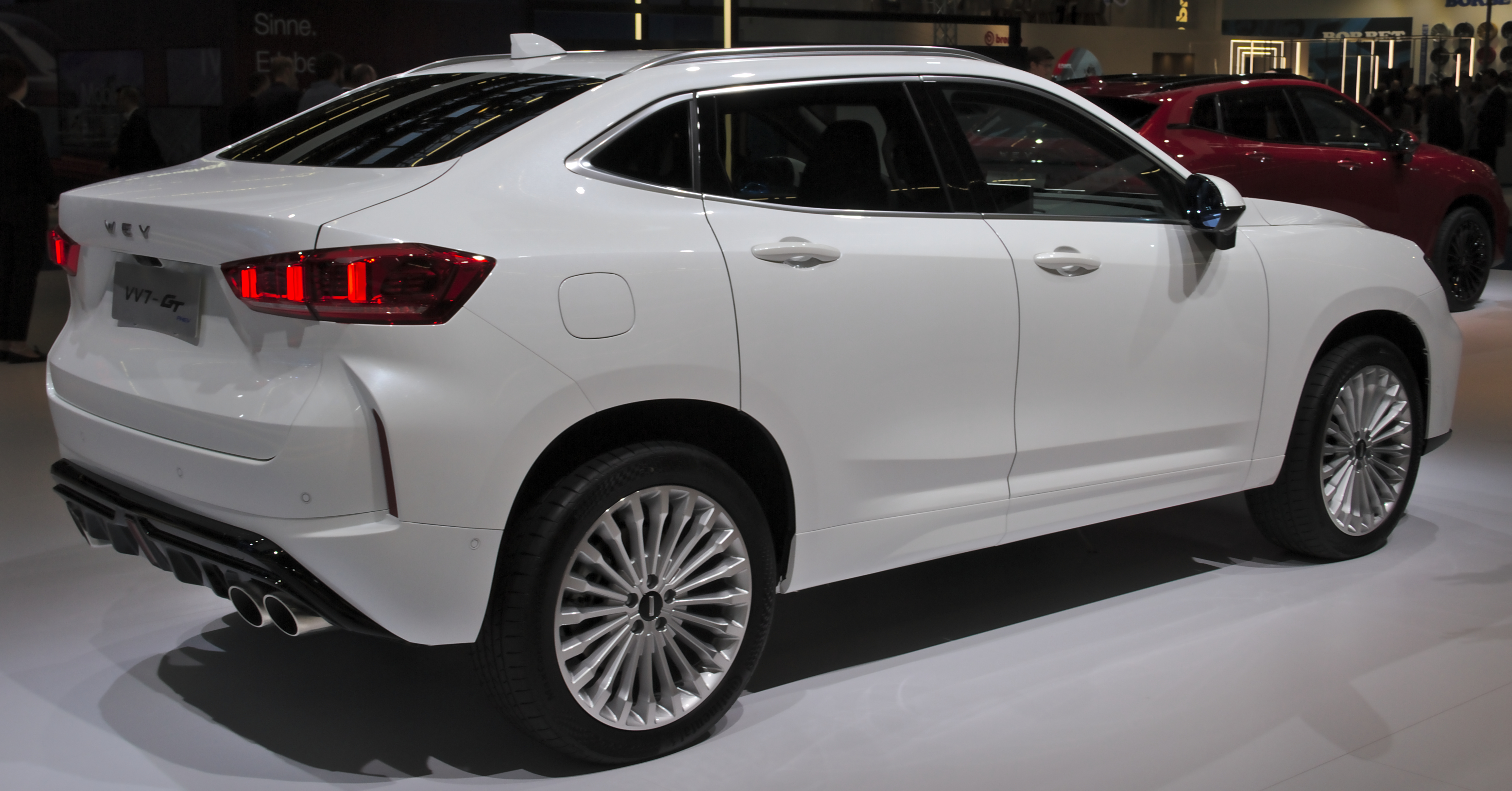 Wey_VV7_GT_PHEV at IAA 2019